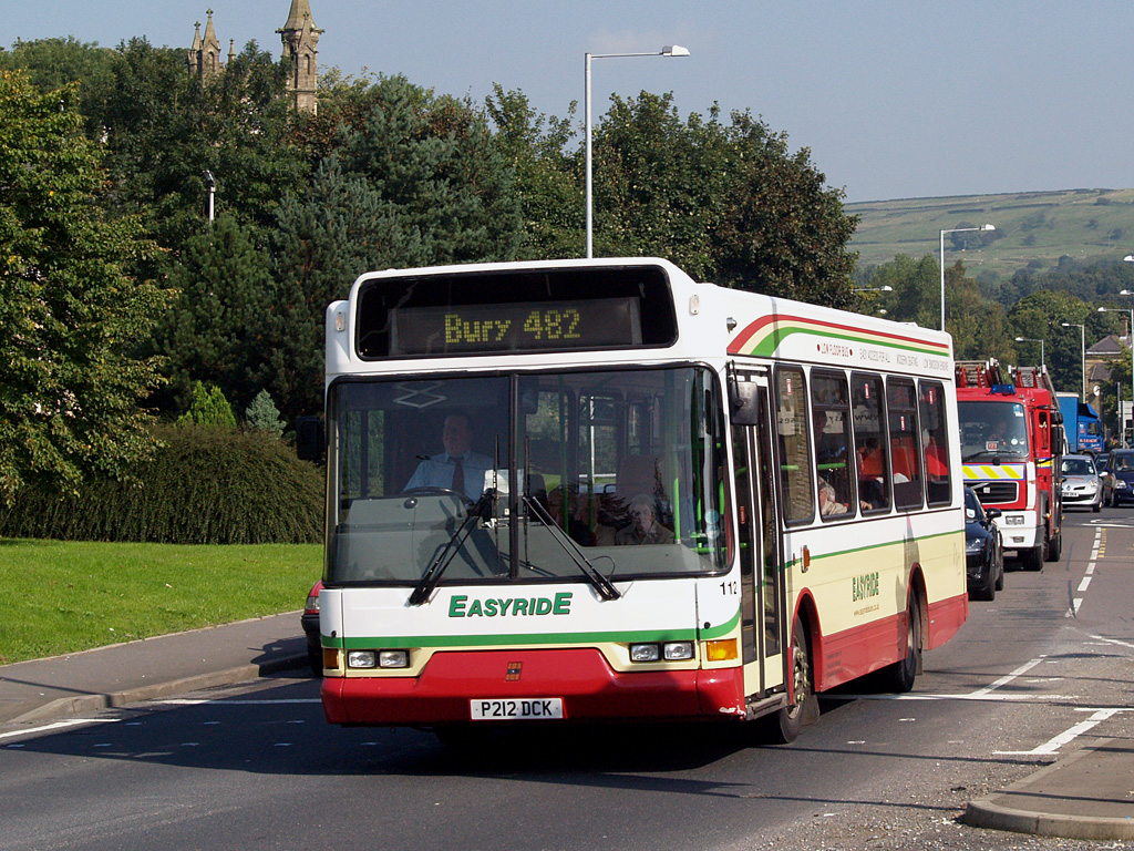 Rossendale Transport Limited 112 P212 DCK, a Dennis ‘Dart’ SLF built 1997 with an East Lancashire ‘Spryte’ B25F+18 body on Bury Road, Rawtenstall with the 11:32 Edgeside (Todd Carr Road) to Bury Interchange via Waterfoot, Rawtenstall, Balladen and Edenfield 482 service. Thursday 18th September 2008